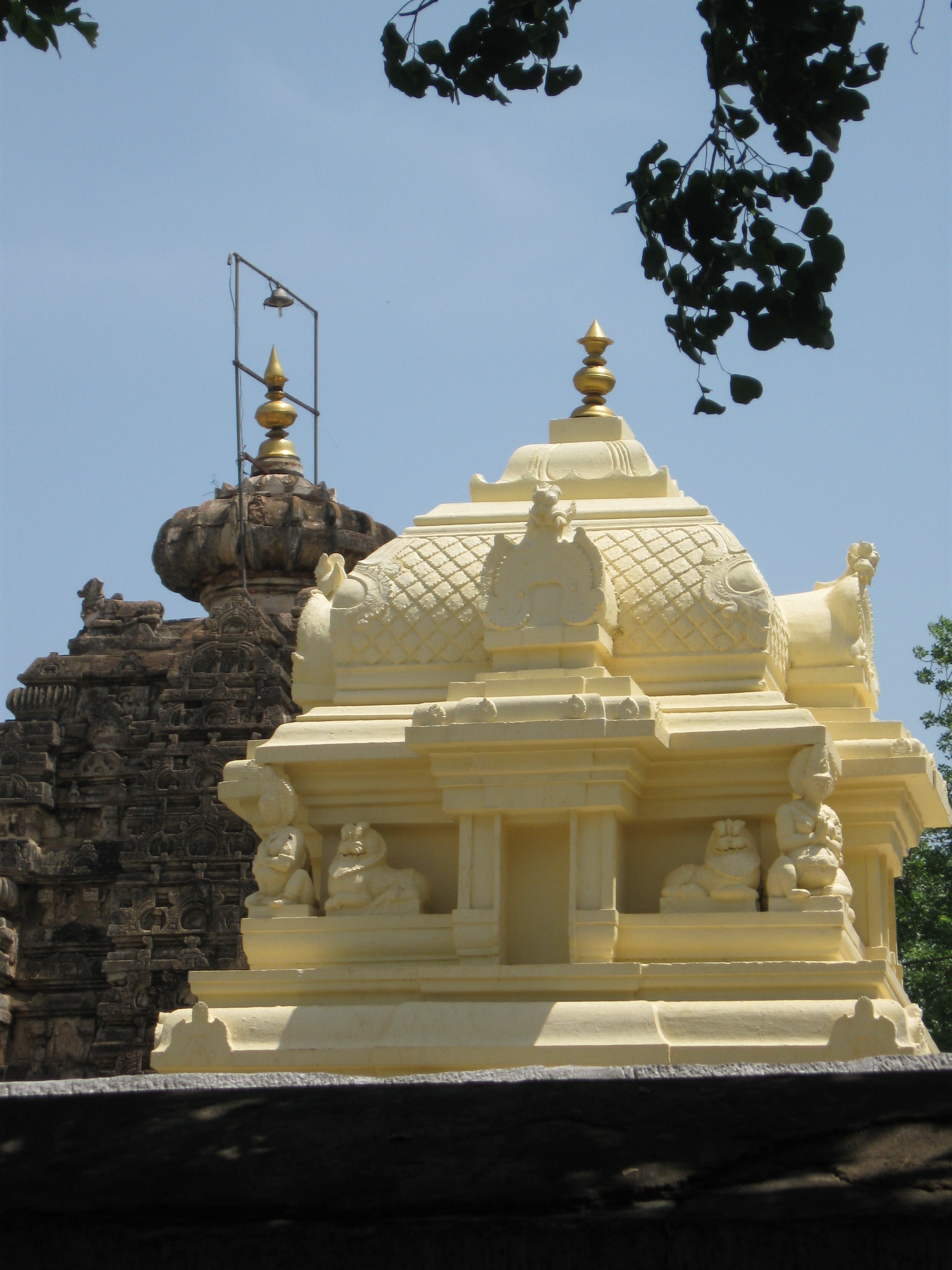 Mahanandi